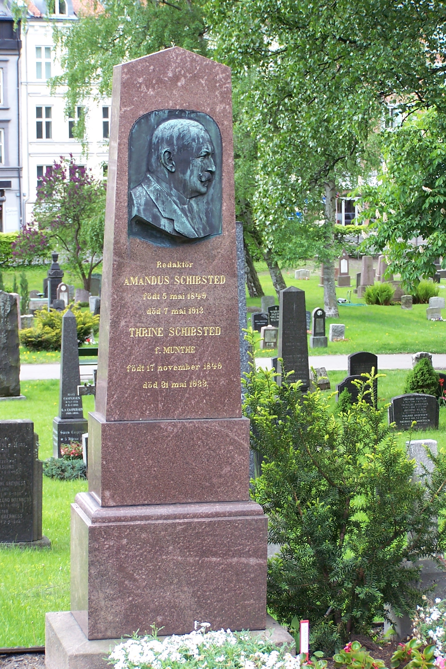 Tomb of Amandus Schibsted at Vår Frelsers gravlund, Oslo